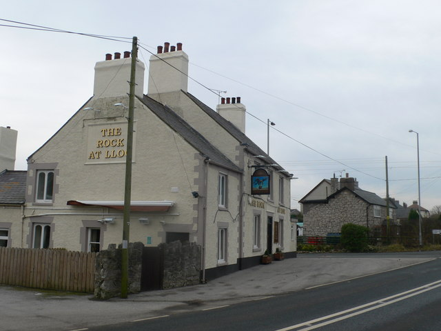 The Rock at Lloc On the A5026 at Lloc.